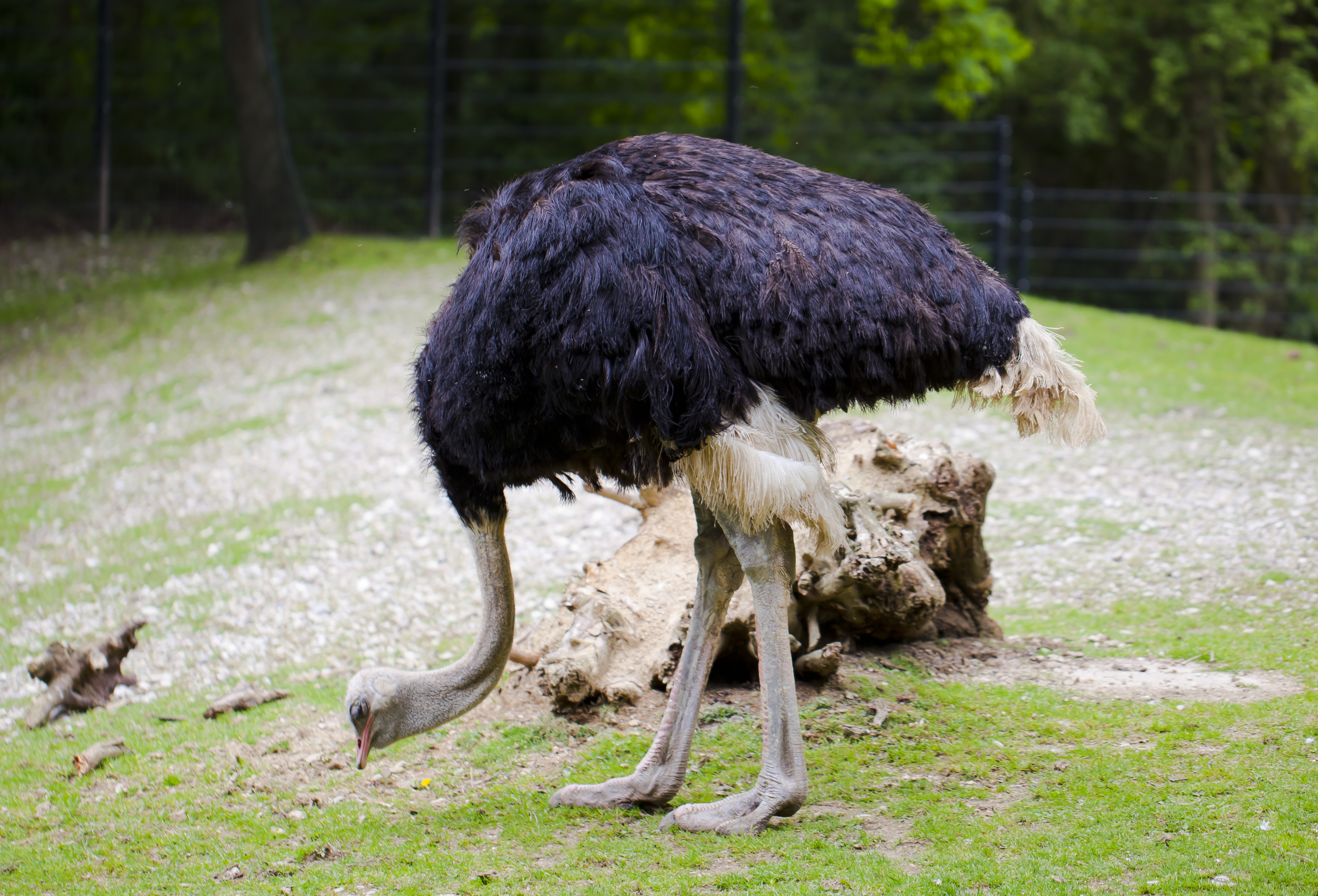 Ostrich (Struthio camelus), Tierpark Hellabrunn, Munich, Germany